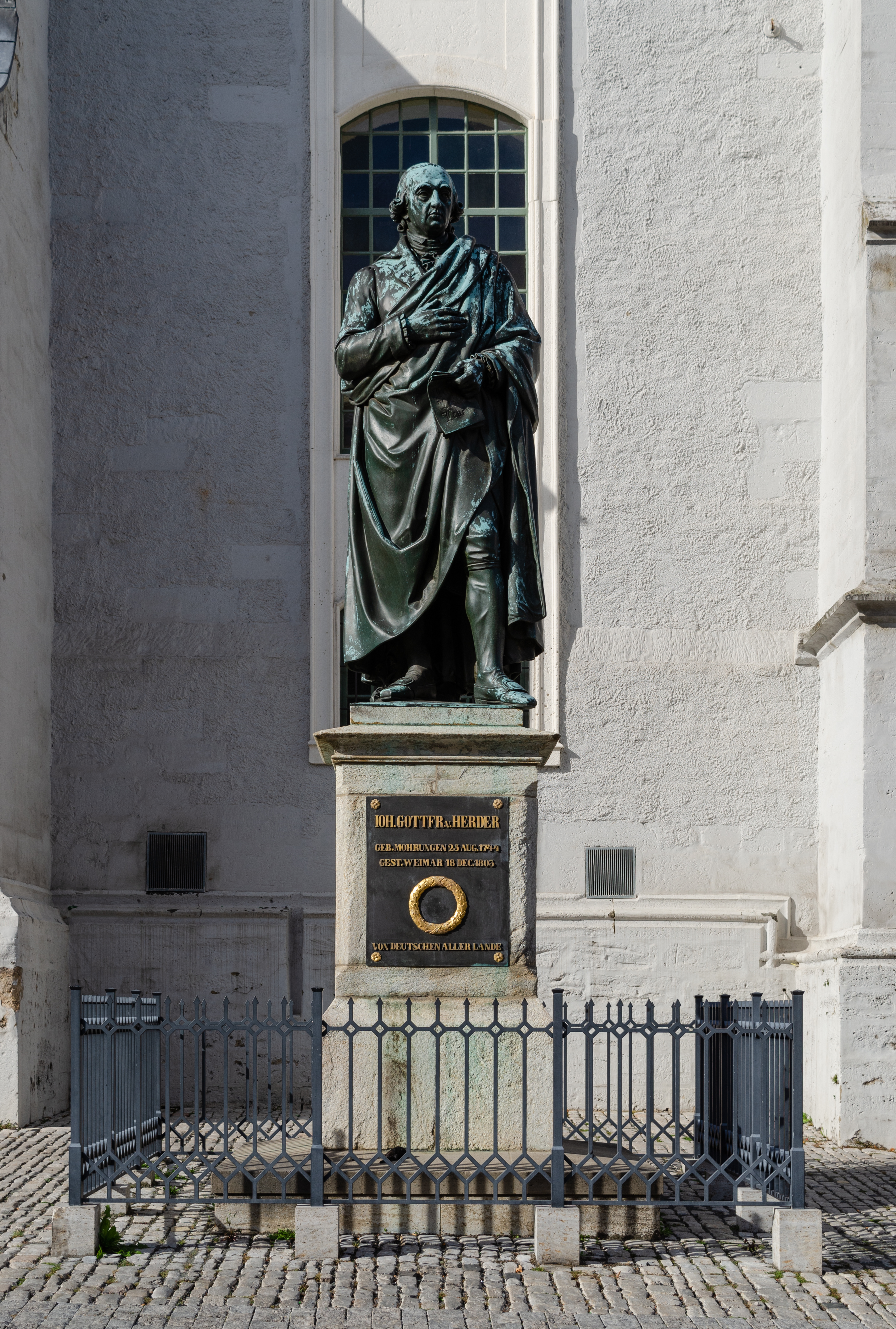 Weimar (Thuringia, Germany) – Herder Memorial in front of the St. Peter's and Paul's Church